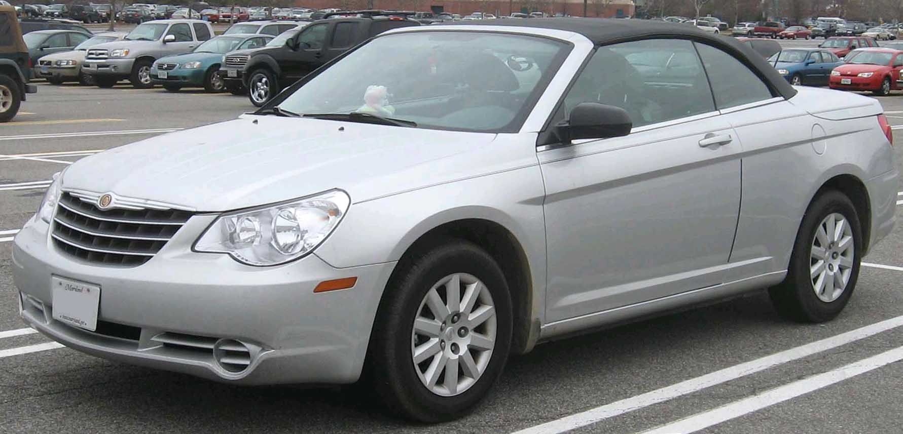 2008 Chrysler Sebring photographed in Waldorf, Maryland, USA.